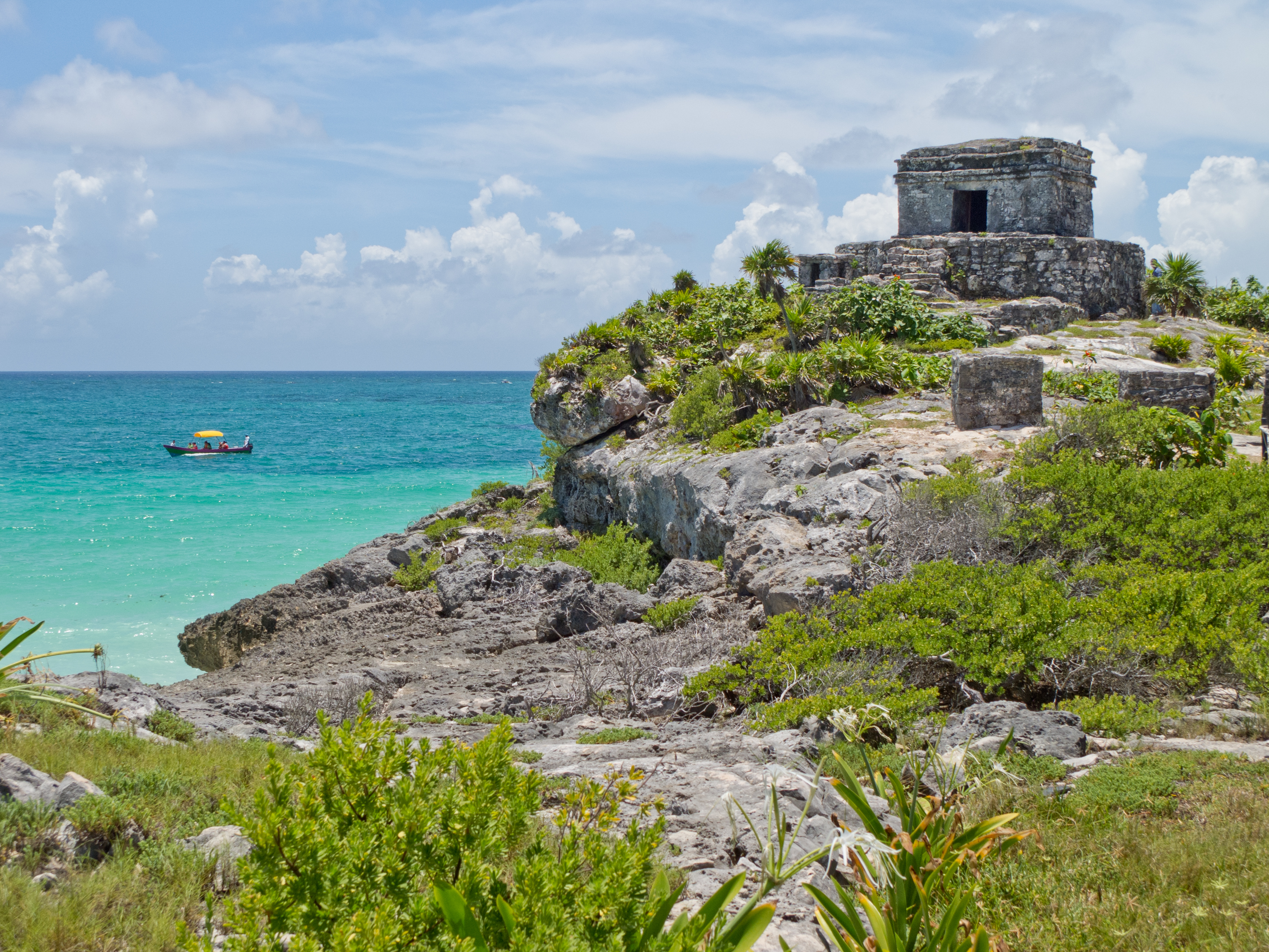 Temple of the God Wind, Tulum, Quintana Roo, Mexico.